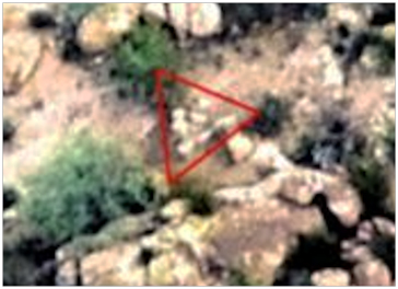 Latin Heart: Noto Triangulum (Notice the Triangle) in the Peralta battle ground.